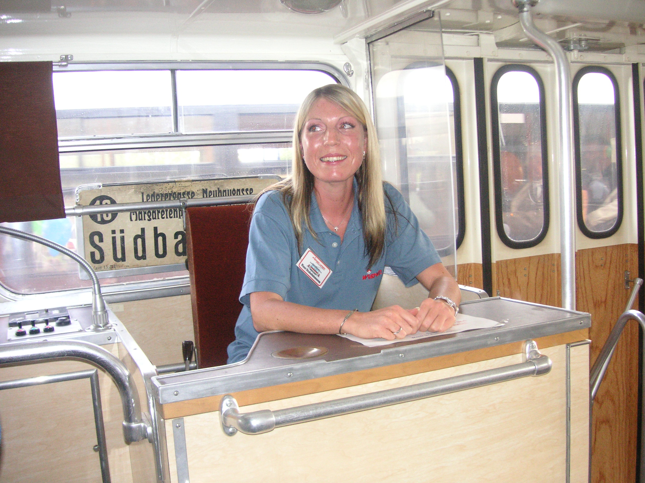 A seated conductor on DD-2FU (ex-8229 ex-W74.829) built in 1961 and phased out in the mid-1970s. Photo taken by during a heritage run in Vienna, Austria.